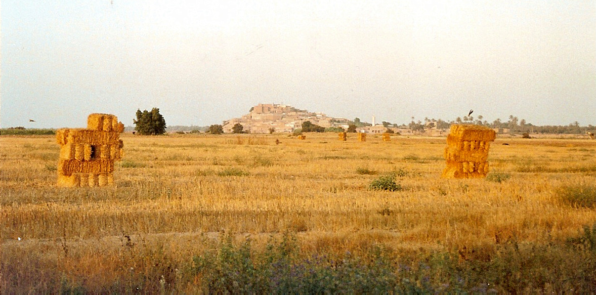 Fields in Morocco, near Aït Iazza, not far from Taroudant. (NB: the village in the back is NOT Aït Iazza)